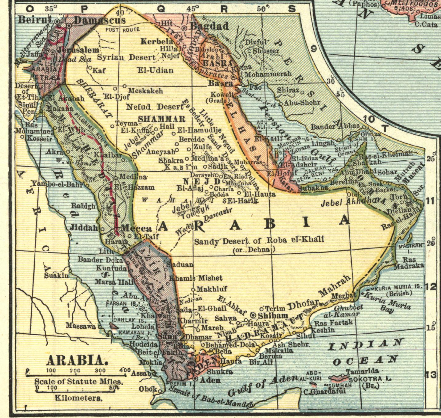 Turkey in Asia, 1909 Publication Info: New York: P.F. Collier and Son, 1909; from The New Encyclopedic Atlas and Gazetteer of the World Date: 1909 Scale: 1:7,603,200